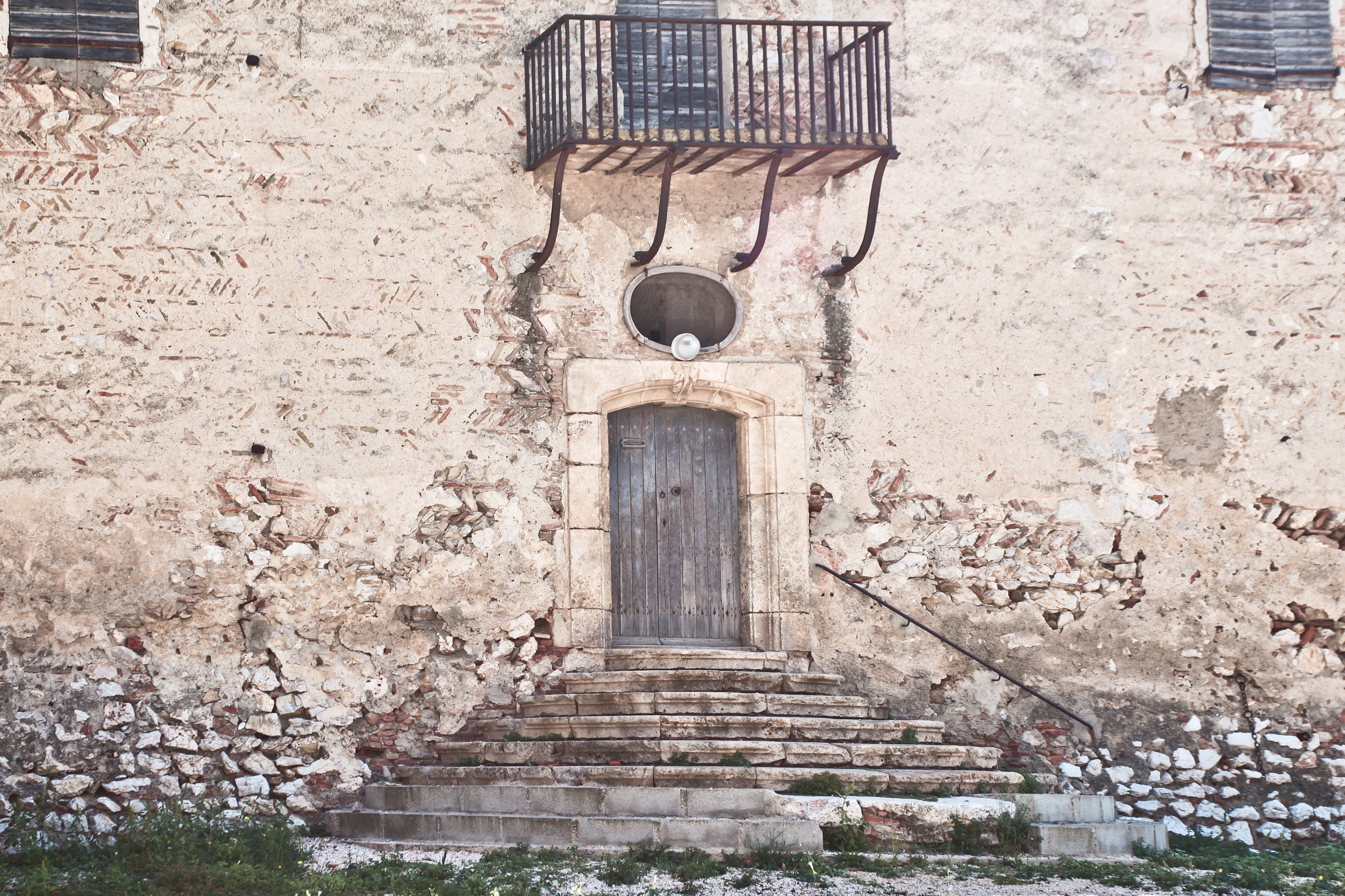 Main entrance of Saint-Hippolyte Castle, inner courtyard, France .